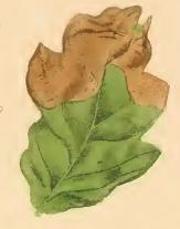 Stainton’s Natural History of the Tineina (1855–1873): Dyseriocrania subpurpurella